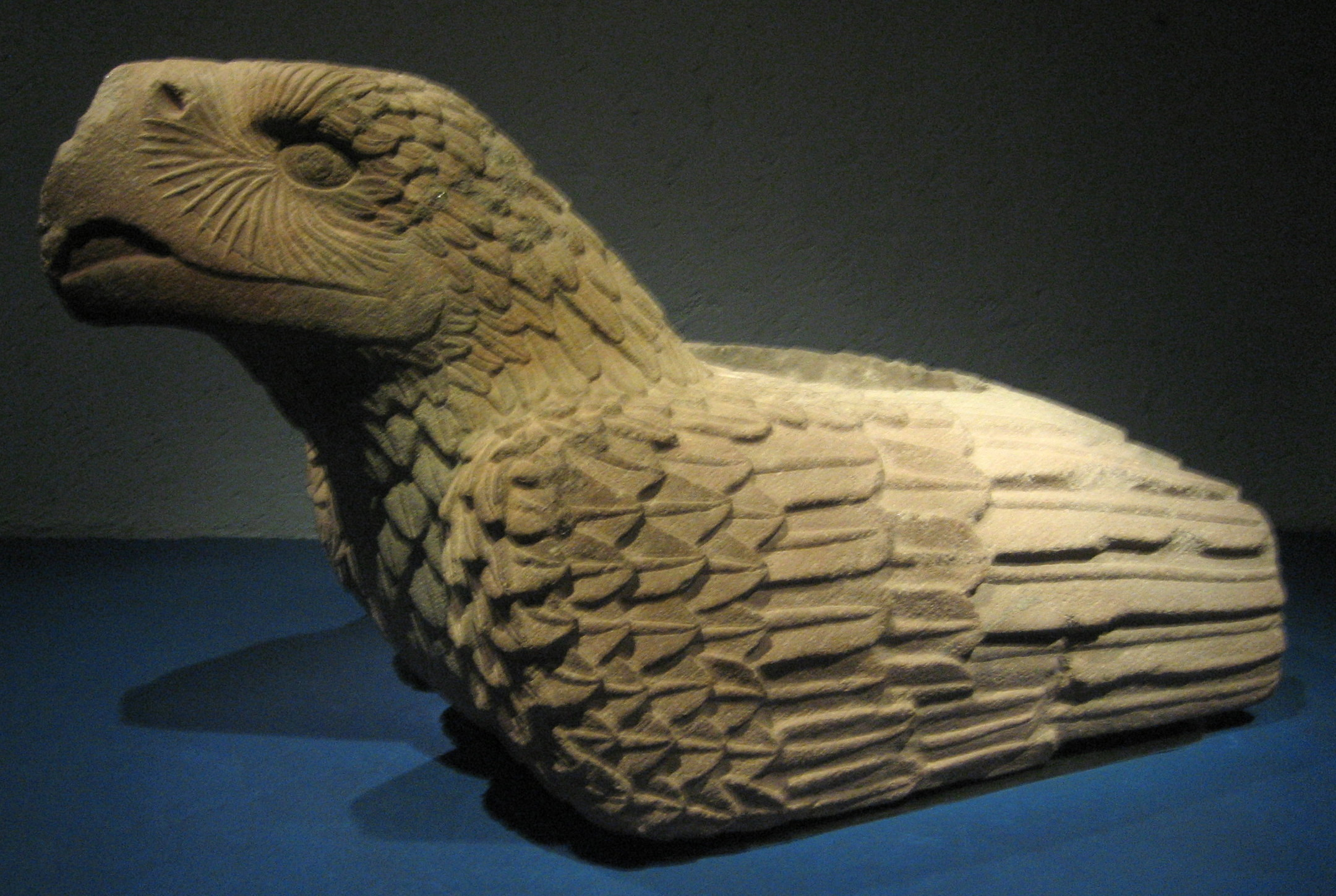 Ritual cuauhxicalli vessel